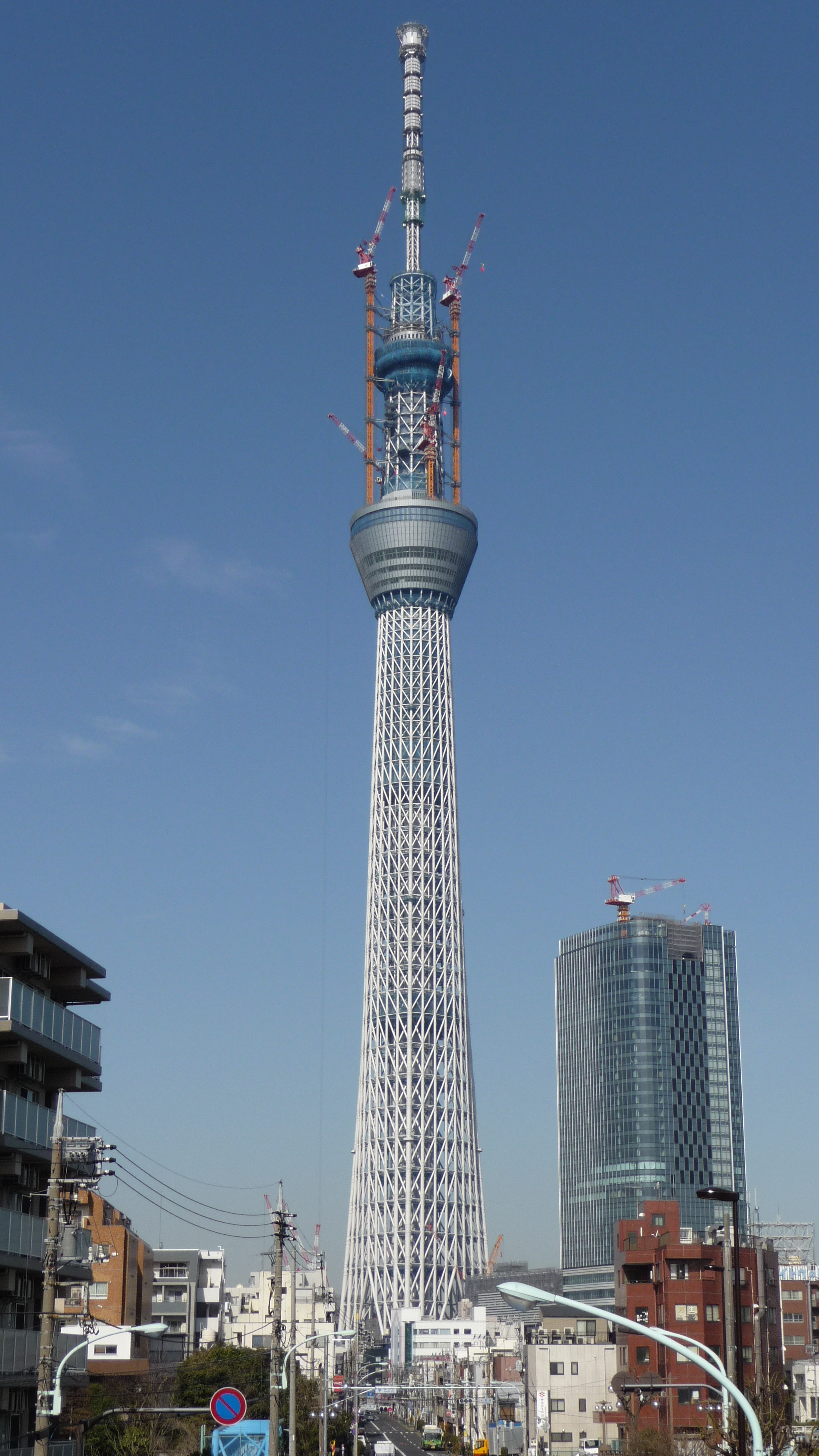 Tokyo Sky Tree under construction, reached to final height of 634 m on 18 March 2011 at 1:34 p.m. JST. Photo taken on, next day, 19 March 2011.